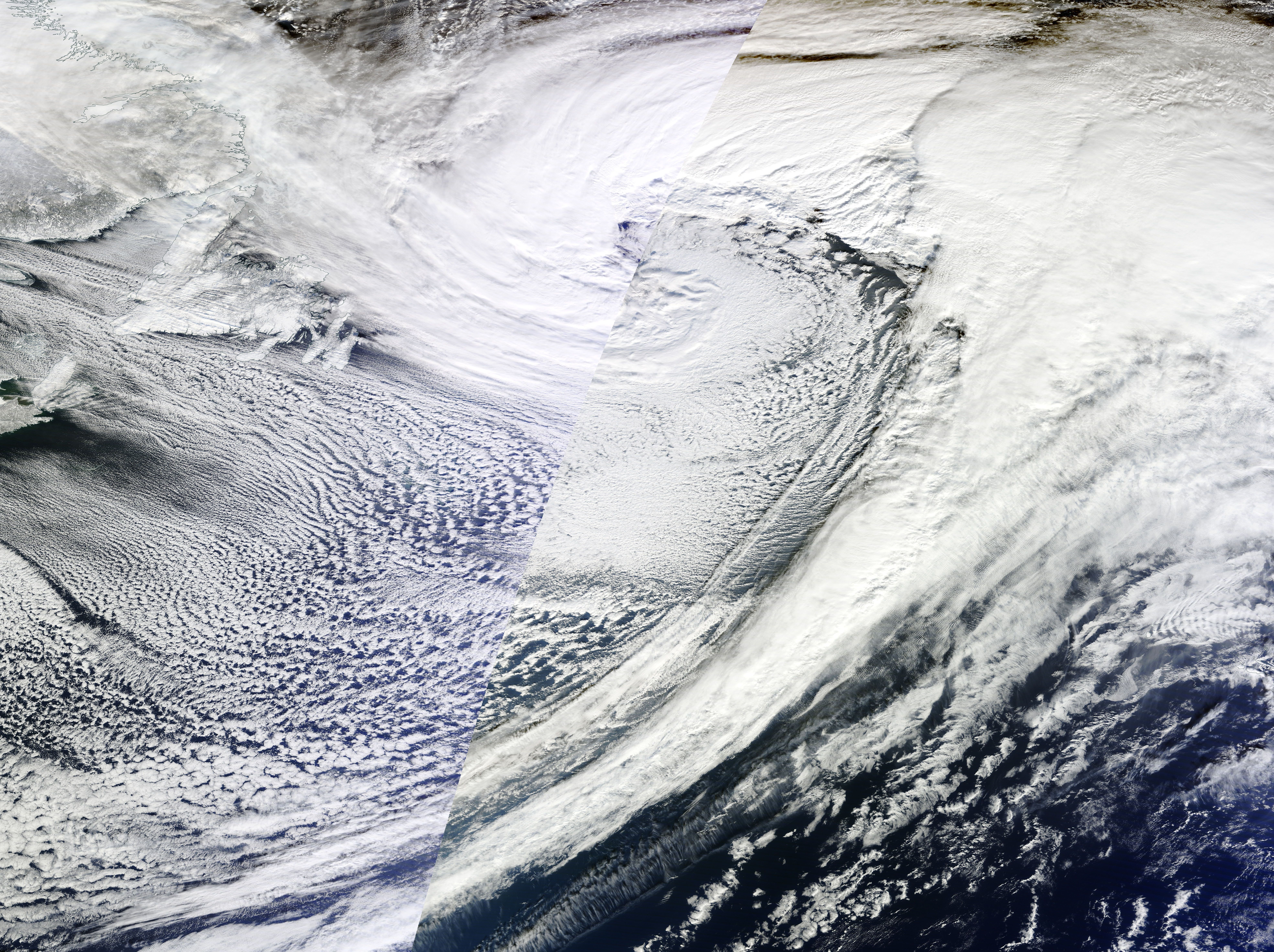 Cyclone Christina developing in the North Atlantic Ocean east of Newfoundland on 4 January 2014. It had earlier brought heavy snowfall to eastern Canada and the United States as a powerful nor'easter.